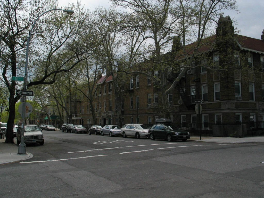 11th ave between 16th street and Windsor Place .